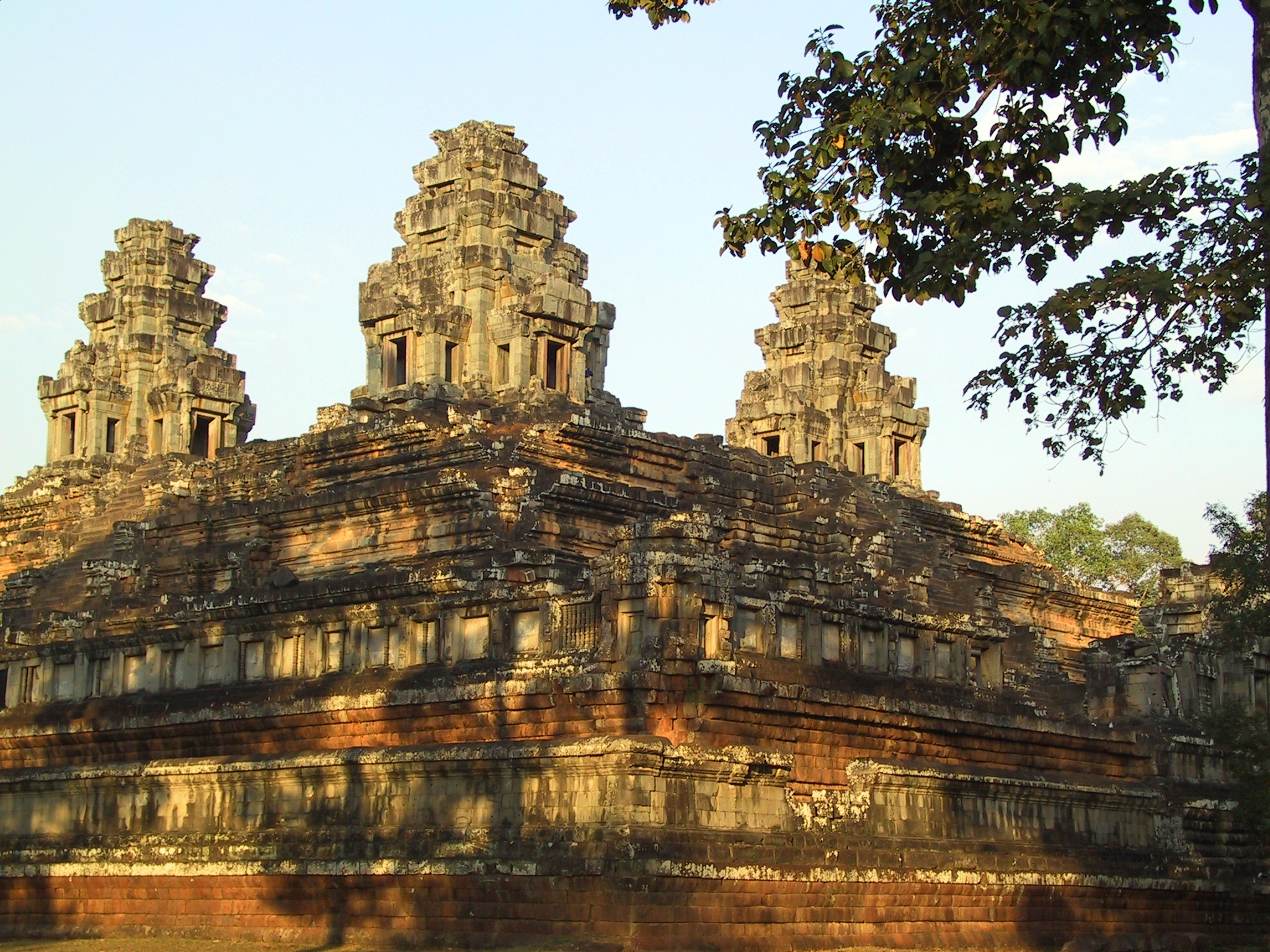 From: Ta Keo temple in Siem Reap province, Cambodia